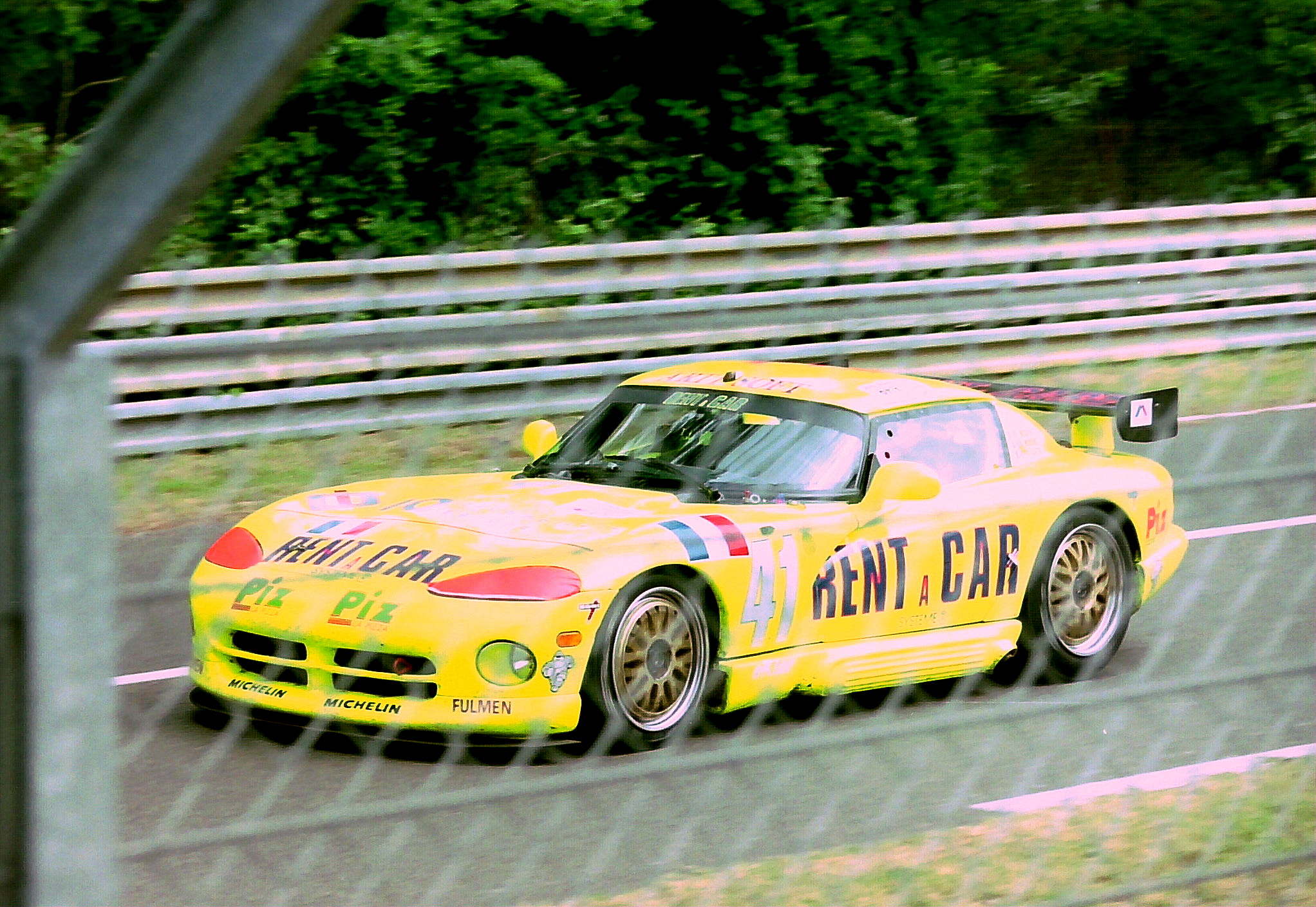 Dodge Viper RT10 - Francois Migault, Denis Morin & Philippe Gache approaches Arnage at the 1994 Le Mans